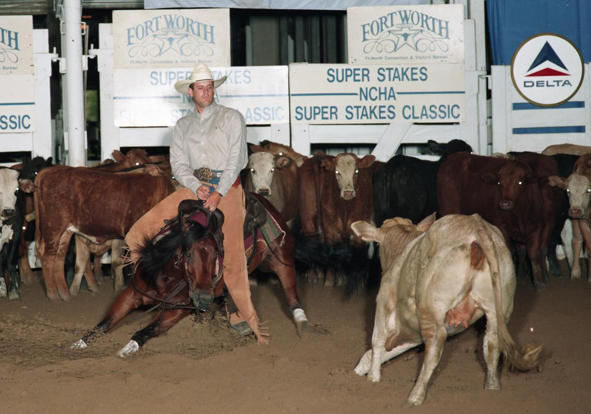 1994 NCHA Super Stakes, Phil Rapp riding Tap O Lena. Rapp won both the Open and Non-Pro on two different horses, Tap O Lena and Miss Skeeto Lena respectively.